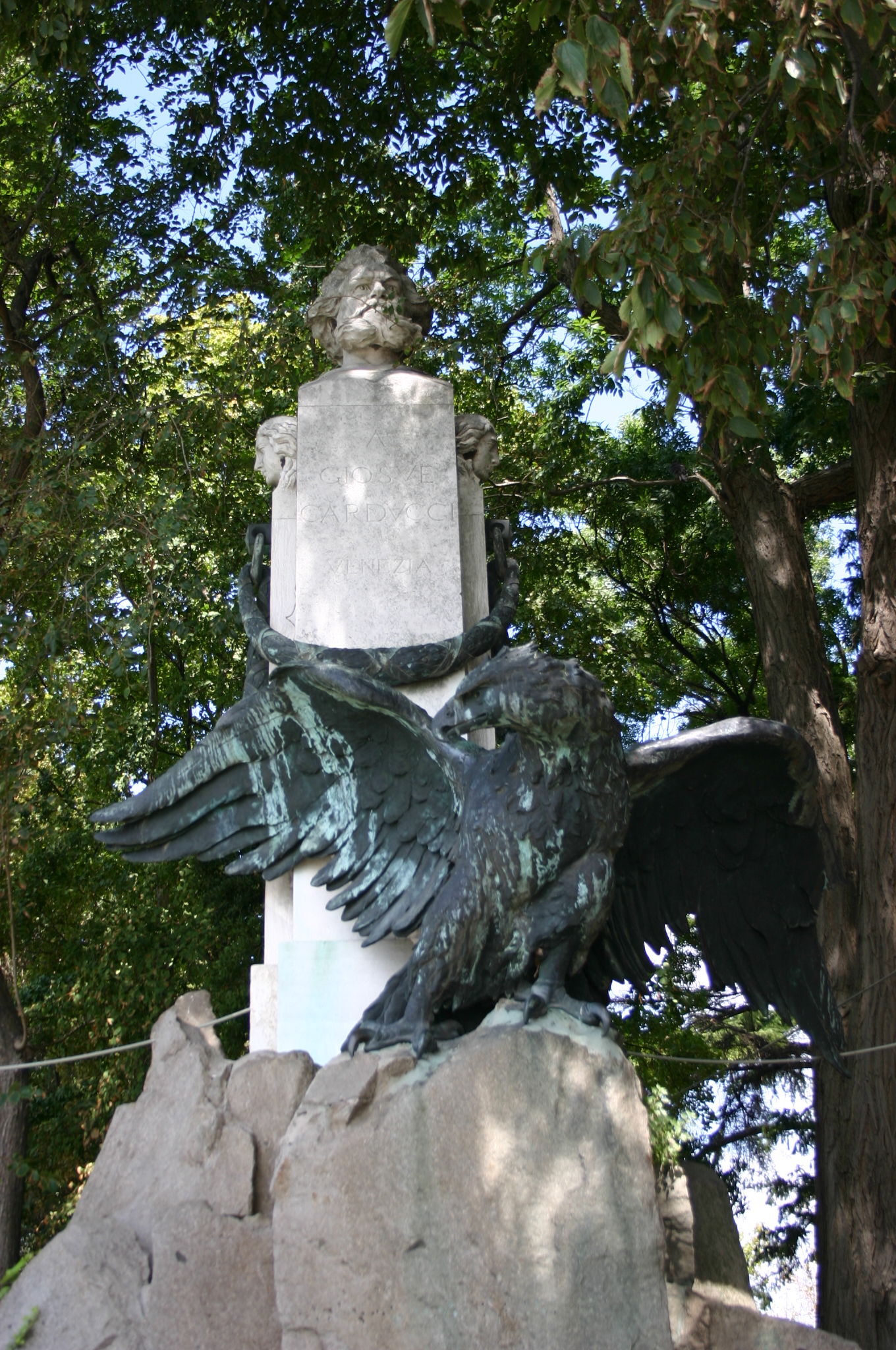 The 1912 monument to Italian poet Giuseppe Garibaldi, sculpted by Annibale de Lotto (1833-1899), stands in the Public Gardens of the town. Picture by Giovanni Dall'Orto, August 10, 2007.